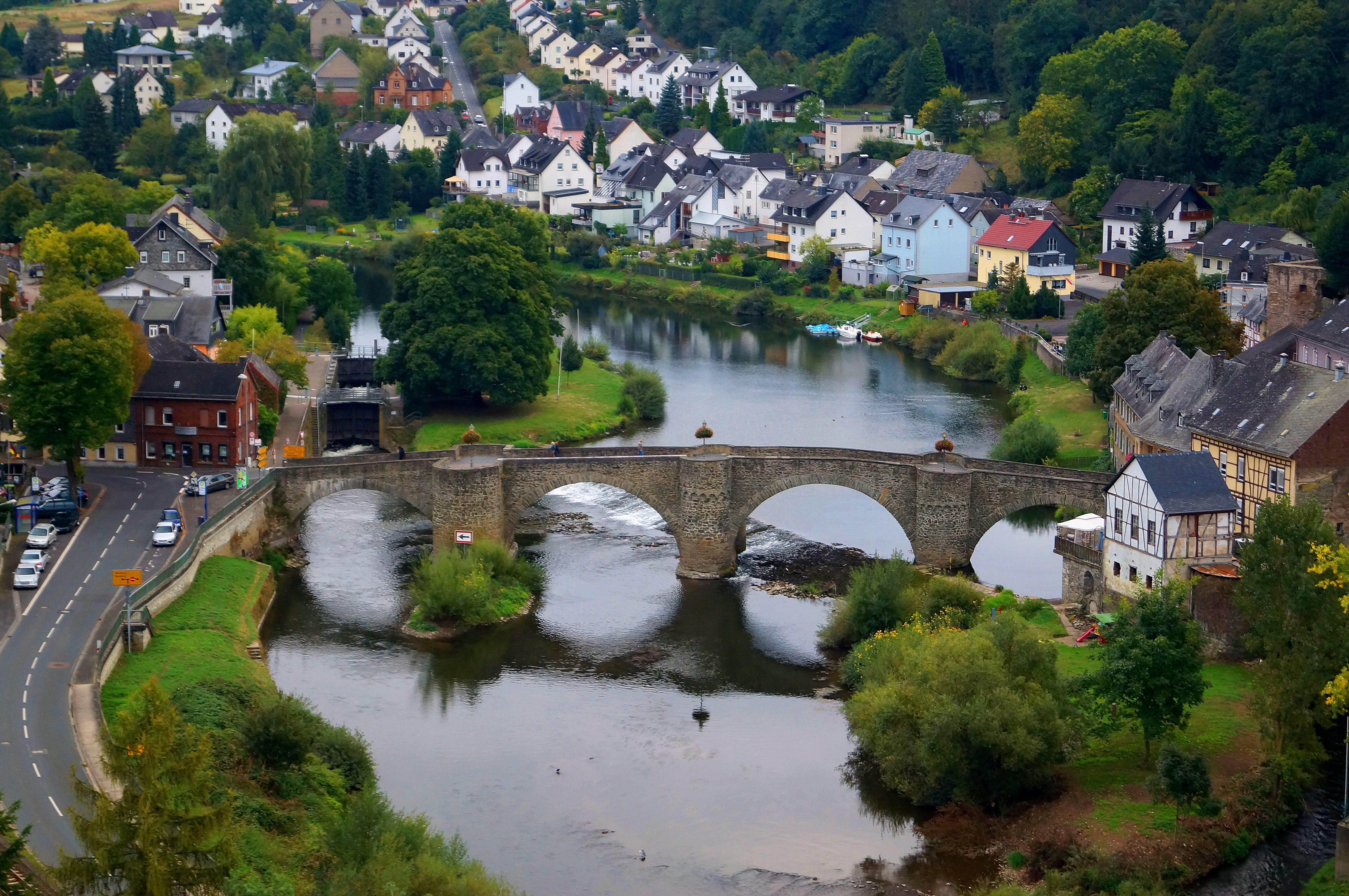 Old bridge over the Lahn river in Runkel, Hesse.